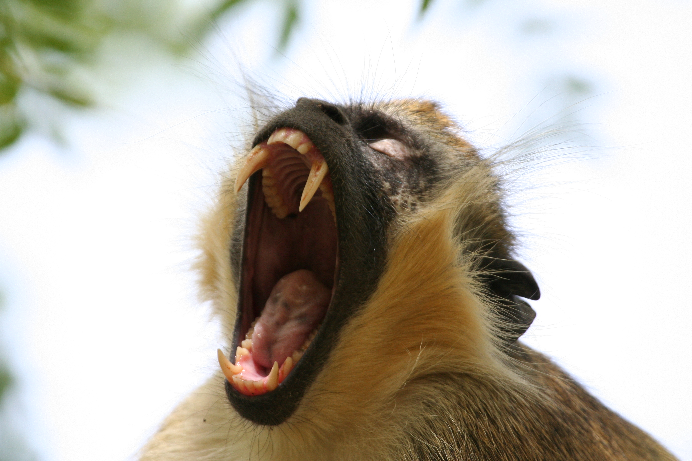 Vervet monkey in Saly, Senegal